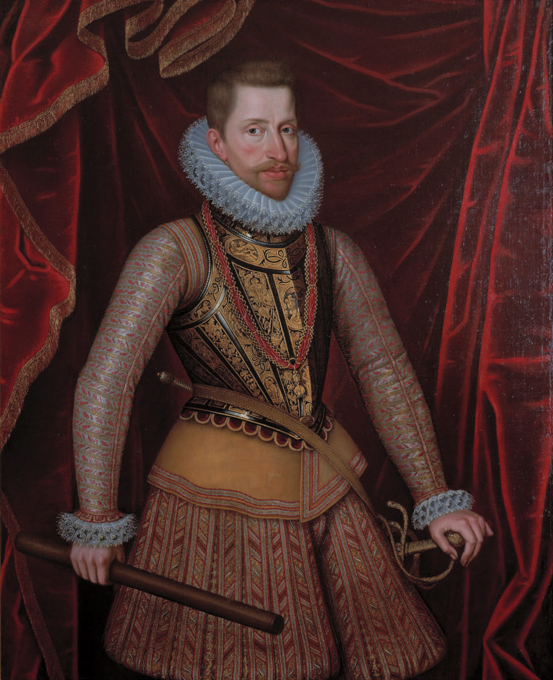 Albert VII, Archduke of Austria oil on canvas 119 x 98 cm circa 1596-1597